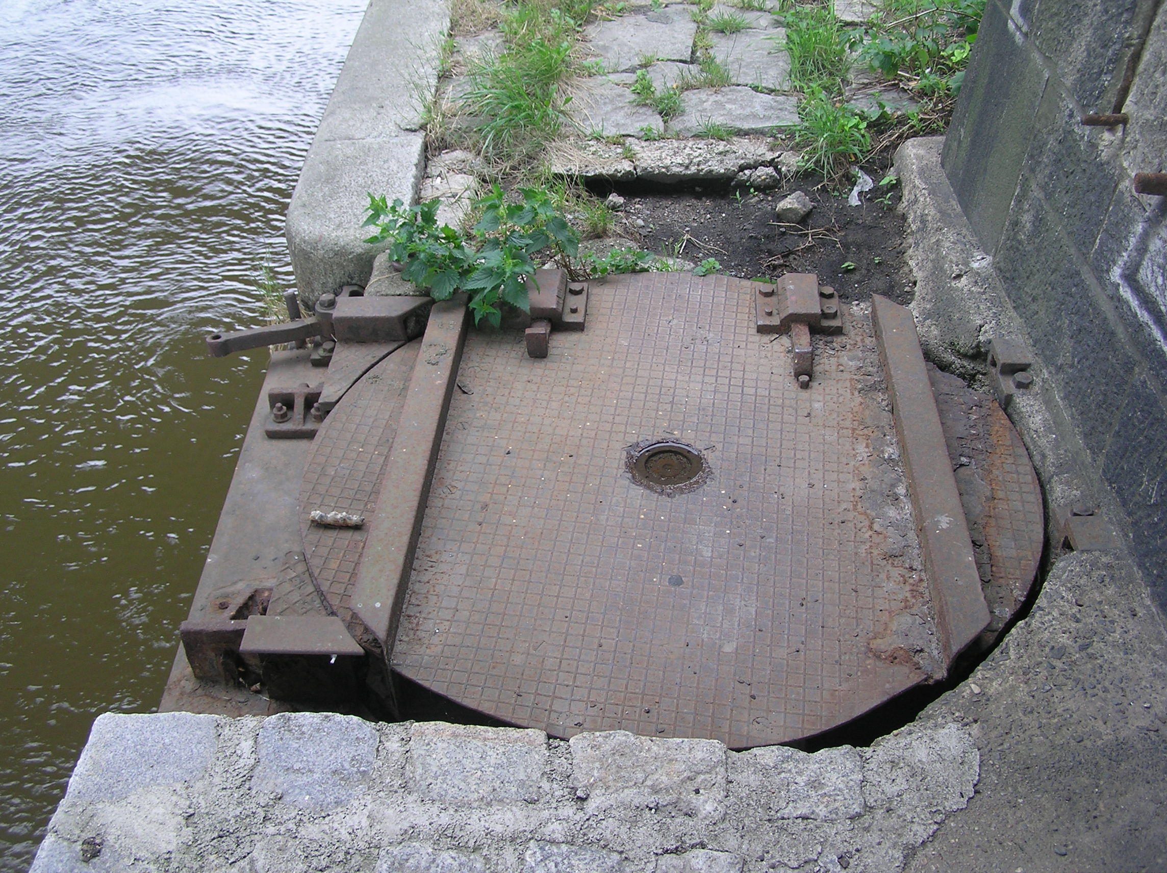 Wrocław, Zacisze Weir, turntable (rail)